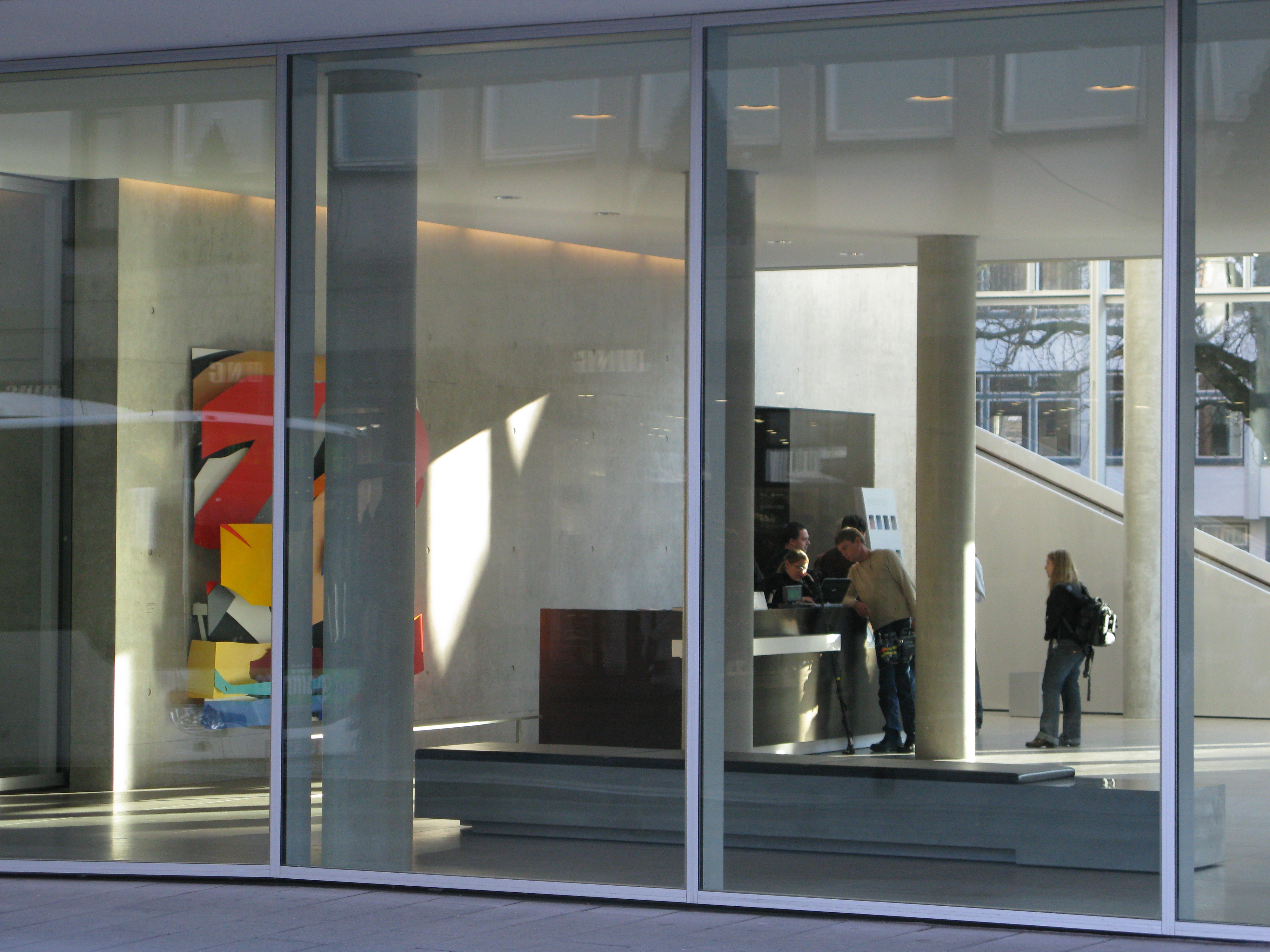 The entrance of the Kunsthalle Weishaupt in Ulm, Germany, with changing exhibitions and an important collection of modern art.